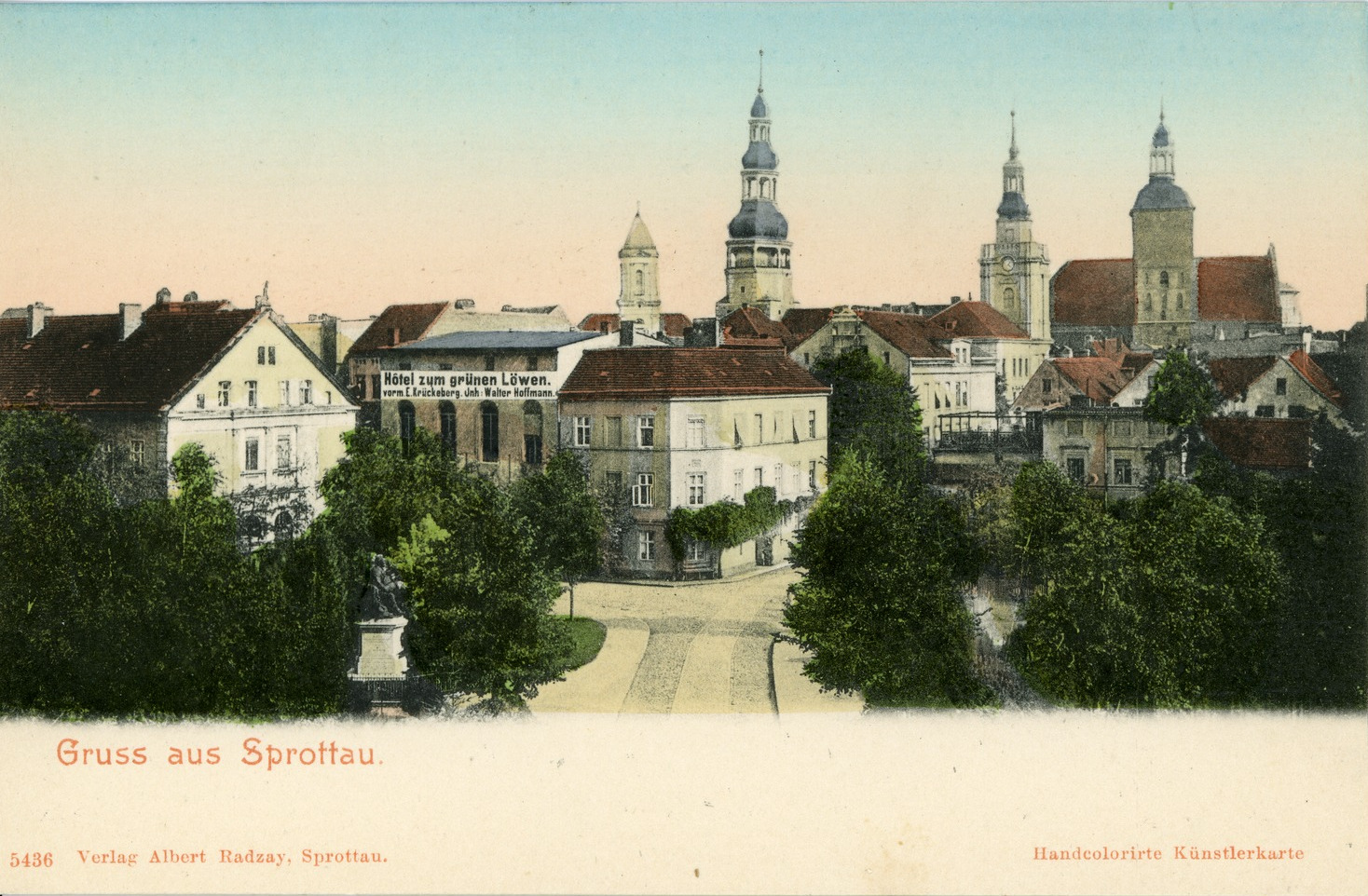 This postcard is from publisher Brück & Sohn in Meißen ( This postcard has a unique number 05436 and is available in a higher resolution at the publisher. This images was uploaded in a cooperation project between Wikipedians and the publisher.